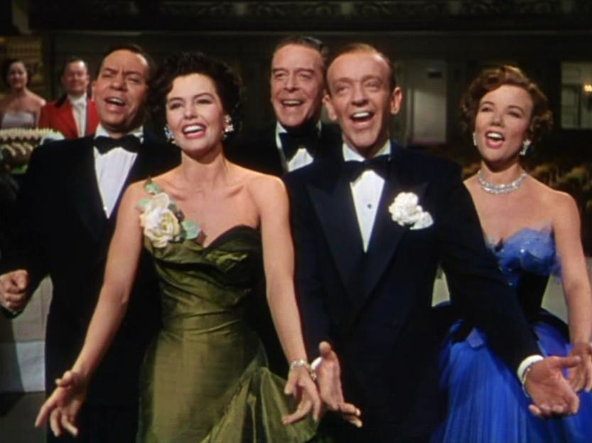 L. to R. : Oscar Levant, Cyd Charisse, Jack Buchanan, Fred Astaire & Nanette Fabray (final number That's Entertainment!) in The Band Wagon - trailer (cropped screenshot)